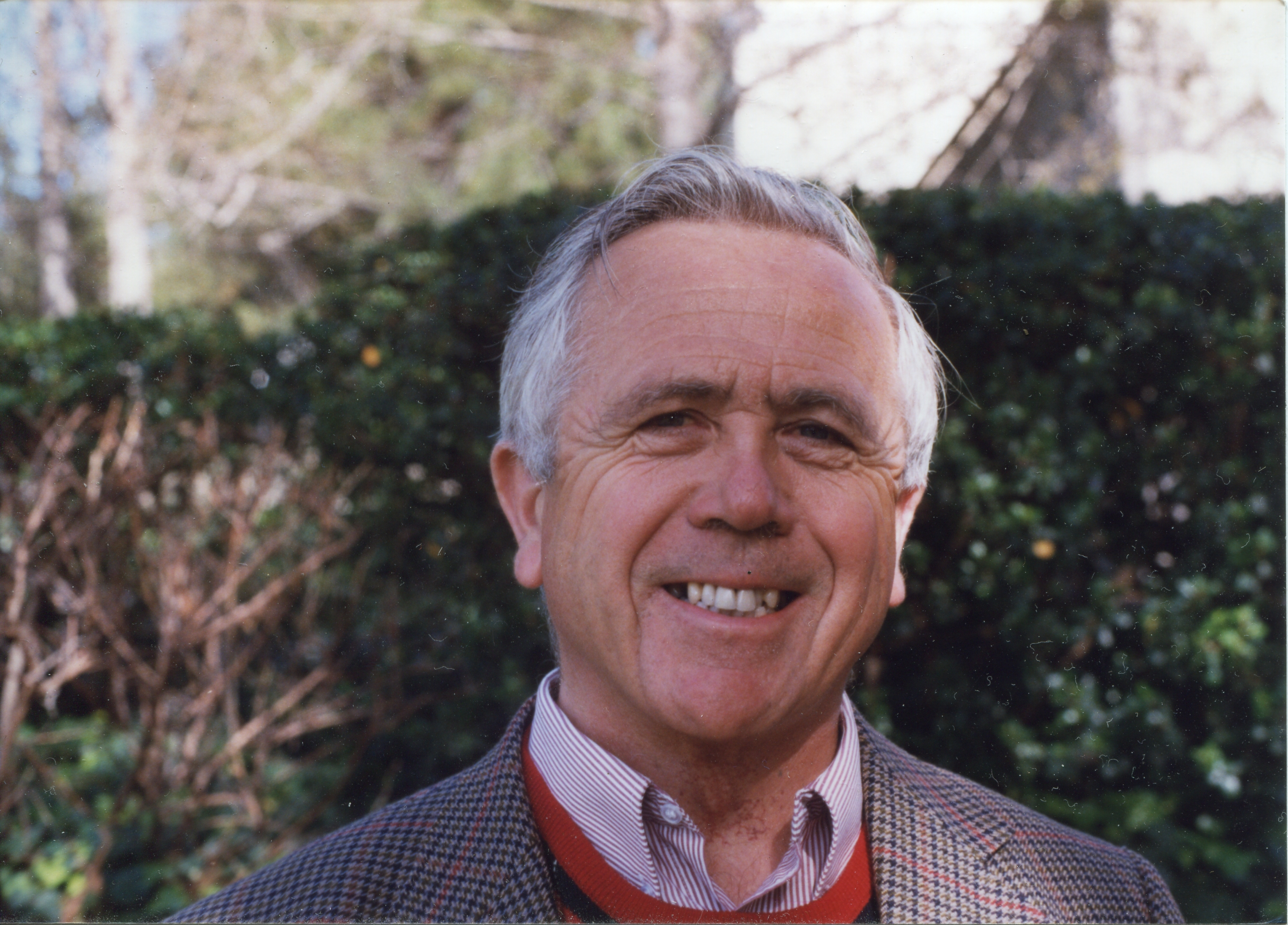 Rodney J. Baxter